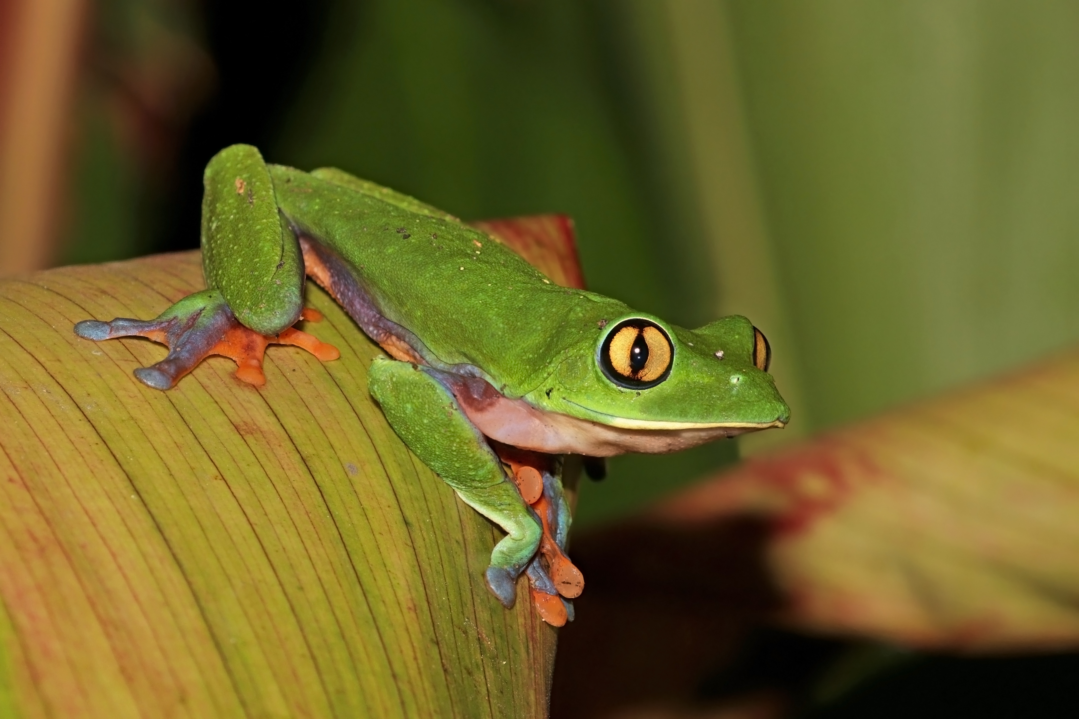 Golden-eyed (or blue-sided) tree frog (Agalychnis annae), Heredia, Costa Rica. Focus stack of two images.